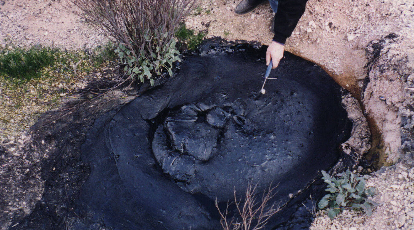 This is one of the better looking natural tar seeps at the McKittrick Oil Field, in California. Sometimes the surface is hard, but in hot weather, it is soft. People like to light the gas bubbles that come out of the seep. The seeps are visible on Google maps as dark areas south of the intersection of Highway 33 and Highway 58, in the western San Joaquin Valley.